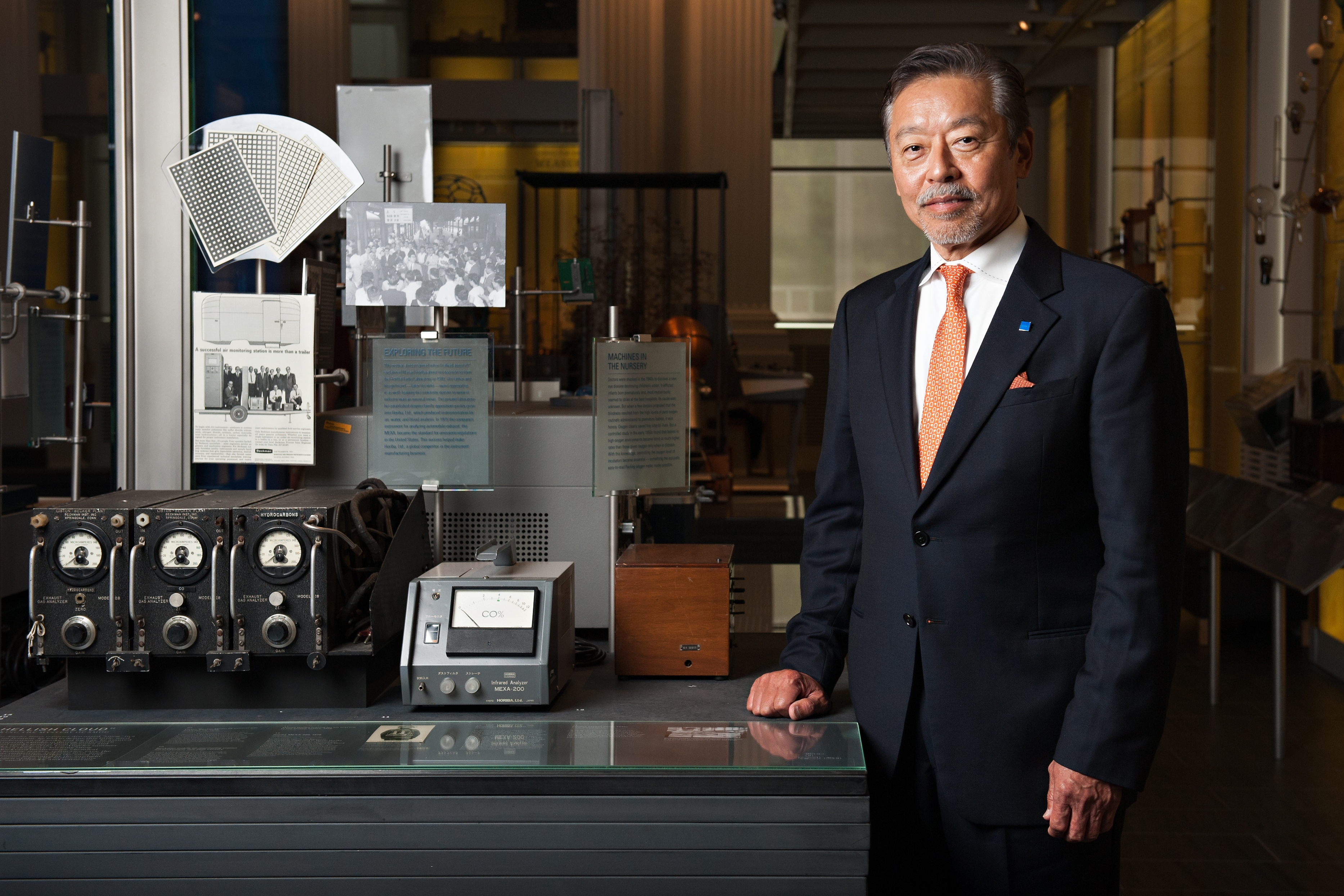 Photograph of chemist Atsushi Horiba, with the Mexa200 Analyzer on exhibit at the Chemical Heritage Foundation, Philadelphia, PA, USA. Atsushi Horiba was the recipient of the 2014 Richard J. Bolte, Sr., Award for Supporting Industries, awarded 2014.